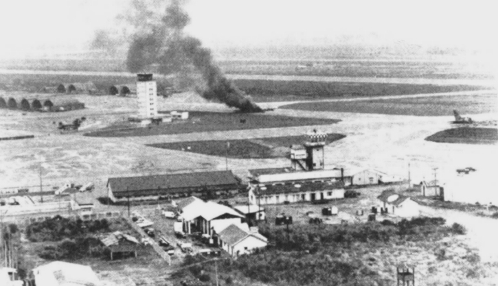 A Vietnamese Air Force Lockheed C-130A Hercules burns at Tan Son Nhut air base, Vietnam, after a North Vietnamese rocket attack on 29 April 1975. This attack forced the U.S. to cancel further evacuations by fixed-wing aircraft.